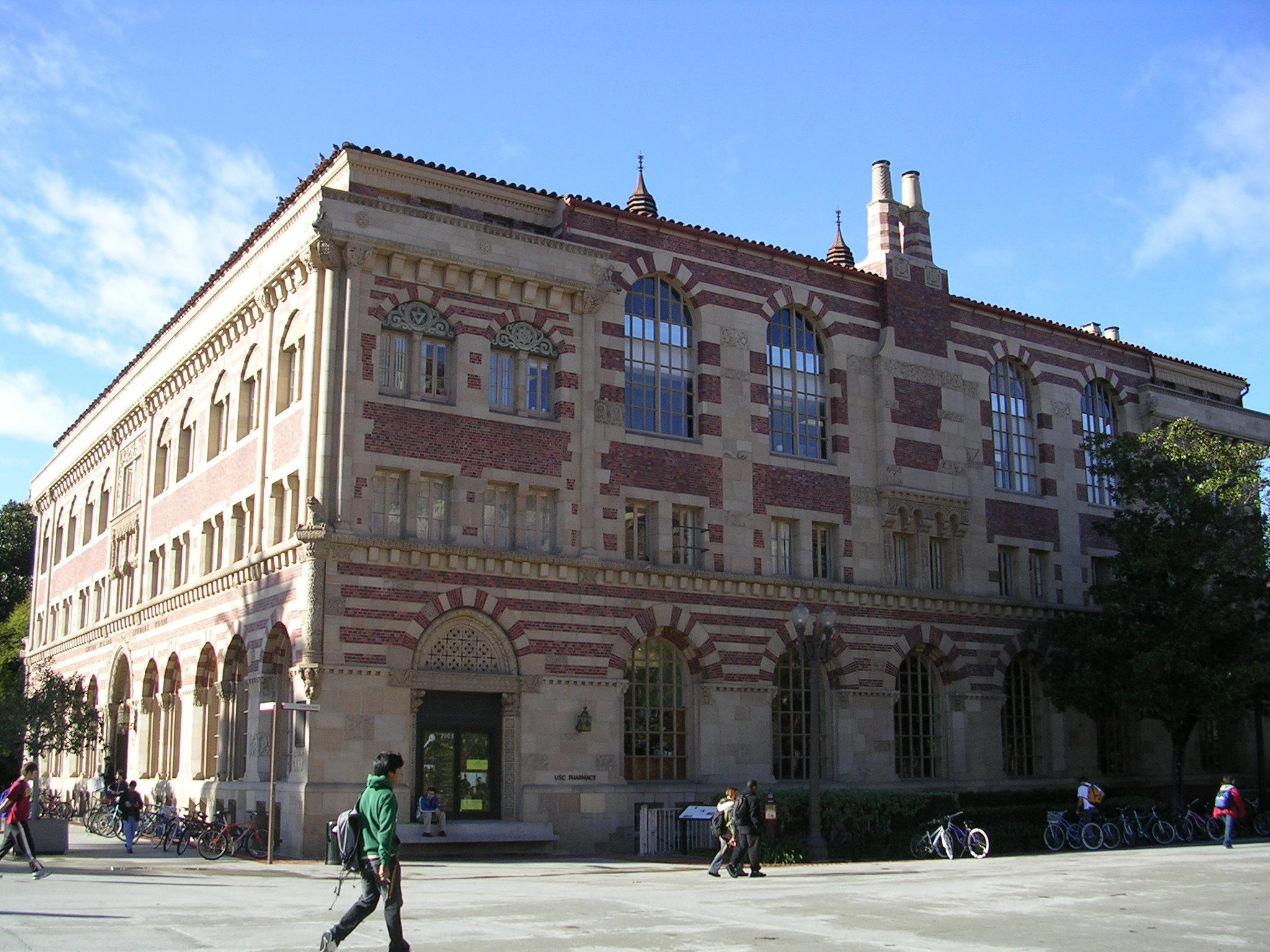 Photo taken by Padsquad. Please observe license and properly cite in use outside Wikipedia.